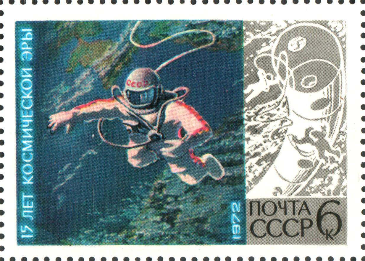 USSR stamp